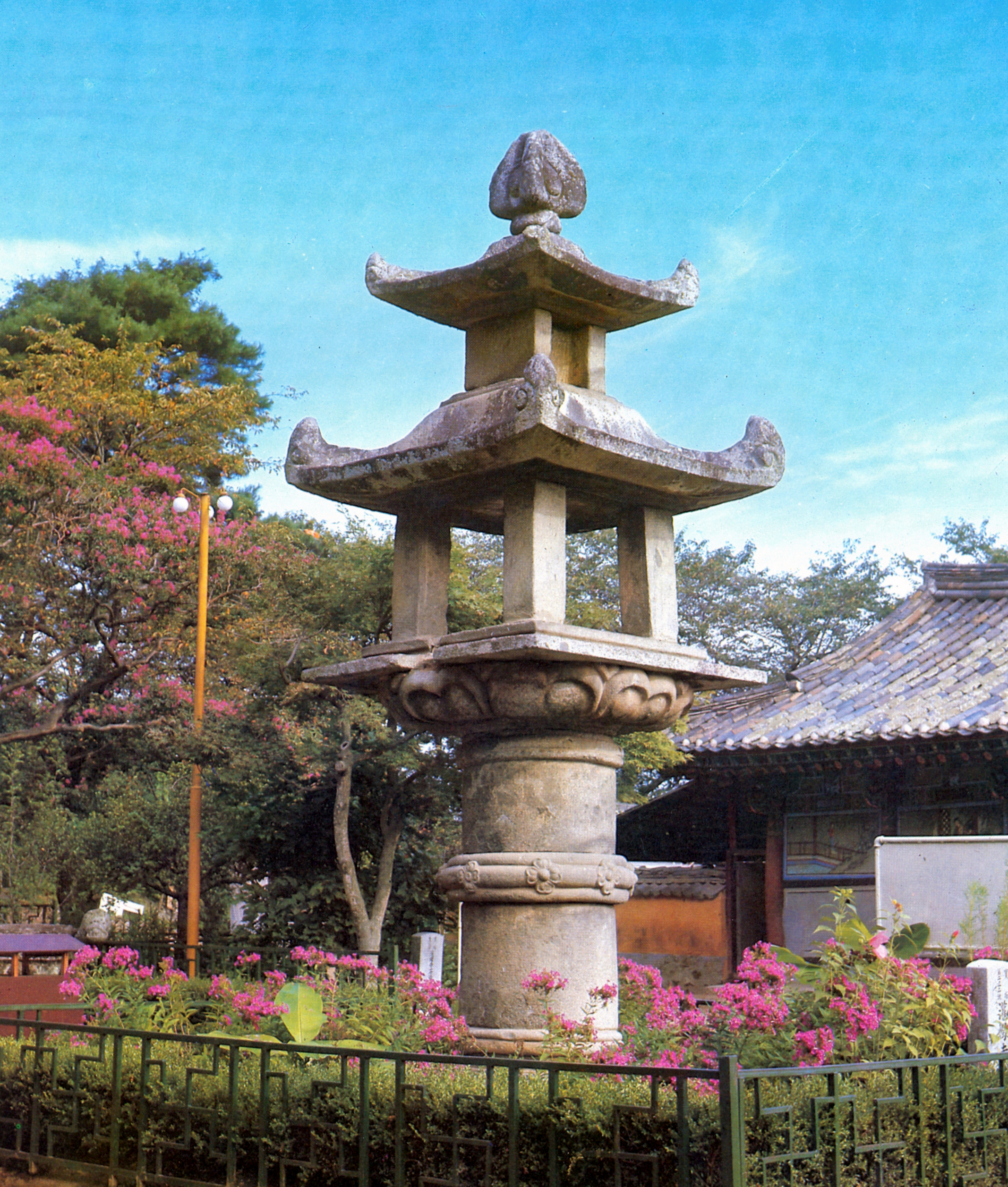 Stone lanterns at Gwanchoksa temple in Nonsan, Korea